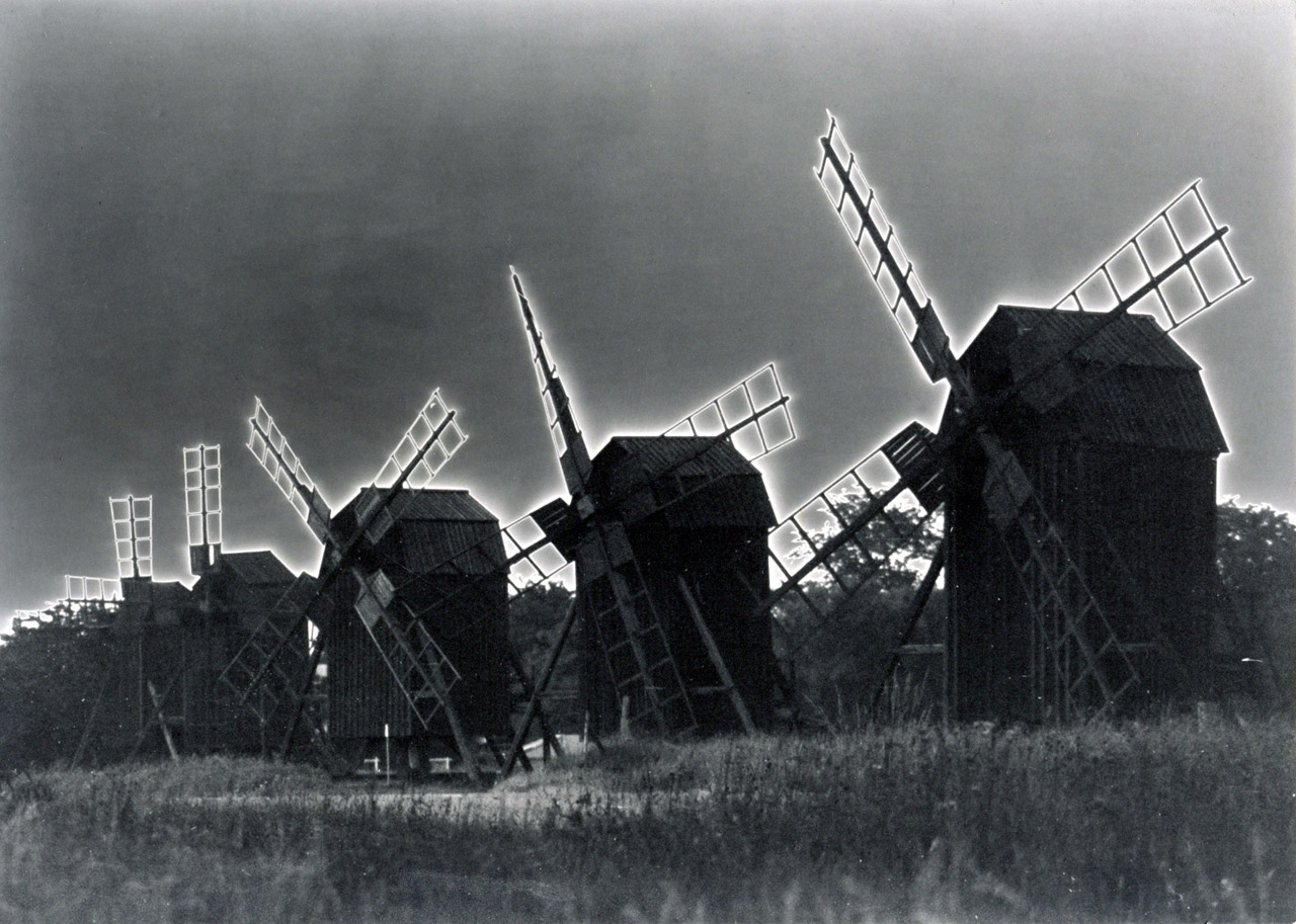 Sabattier Effect realized in a positive. During development of the positive, it was post exposed with a bulb. Image: windmills at the island of Öland (Sweden).